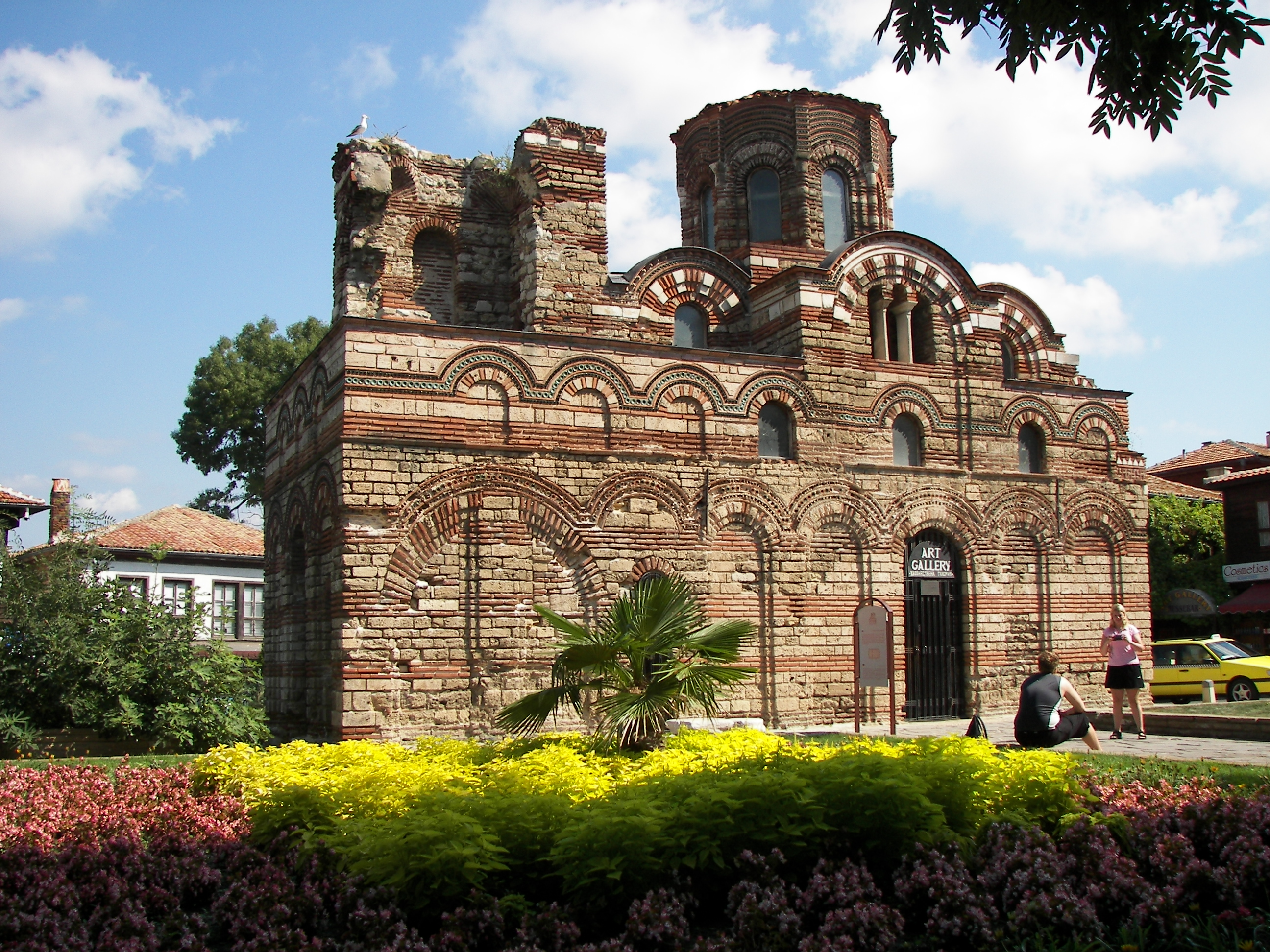 Nesebar